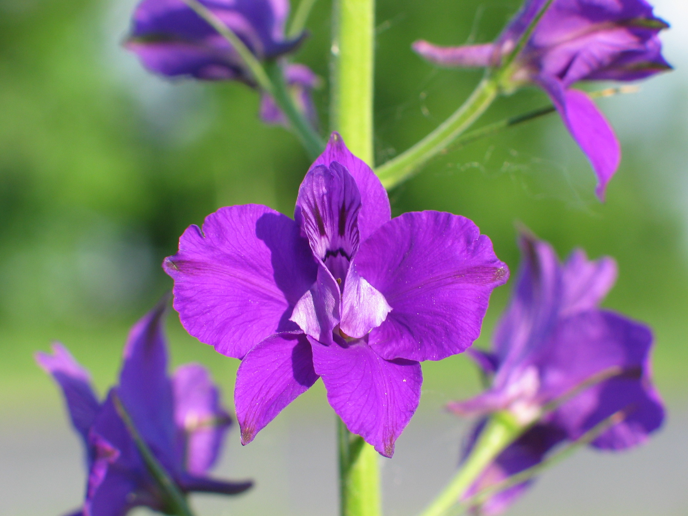 Consolida orientalis by the roadside, 2005-05-26, Algyő, Hungary.